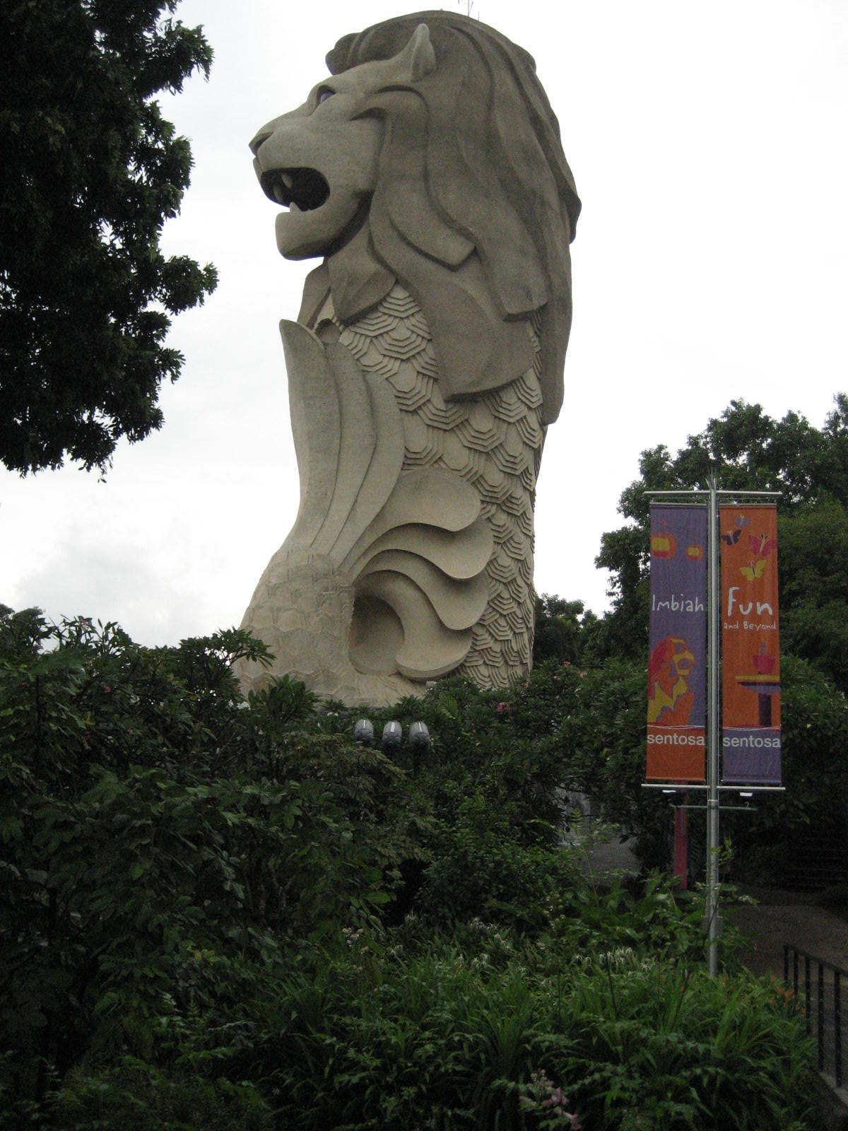 Merlion at Sentosa island (back side)